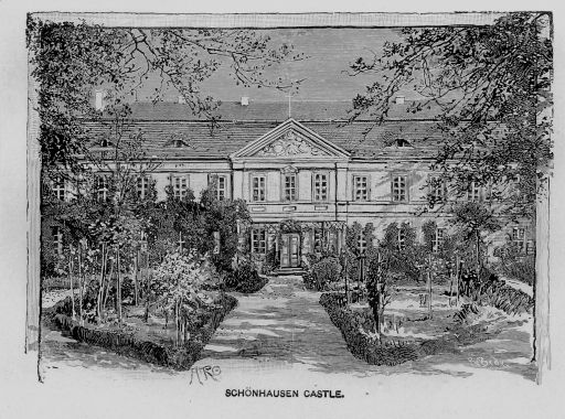 Schönhausen Castle, former residence of the Bismarck family.